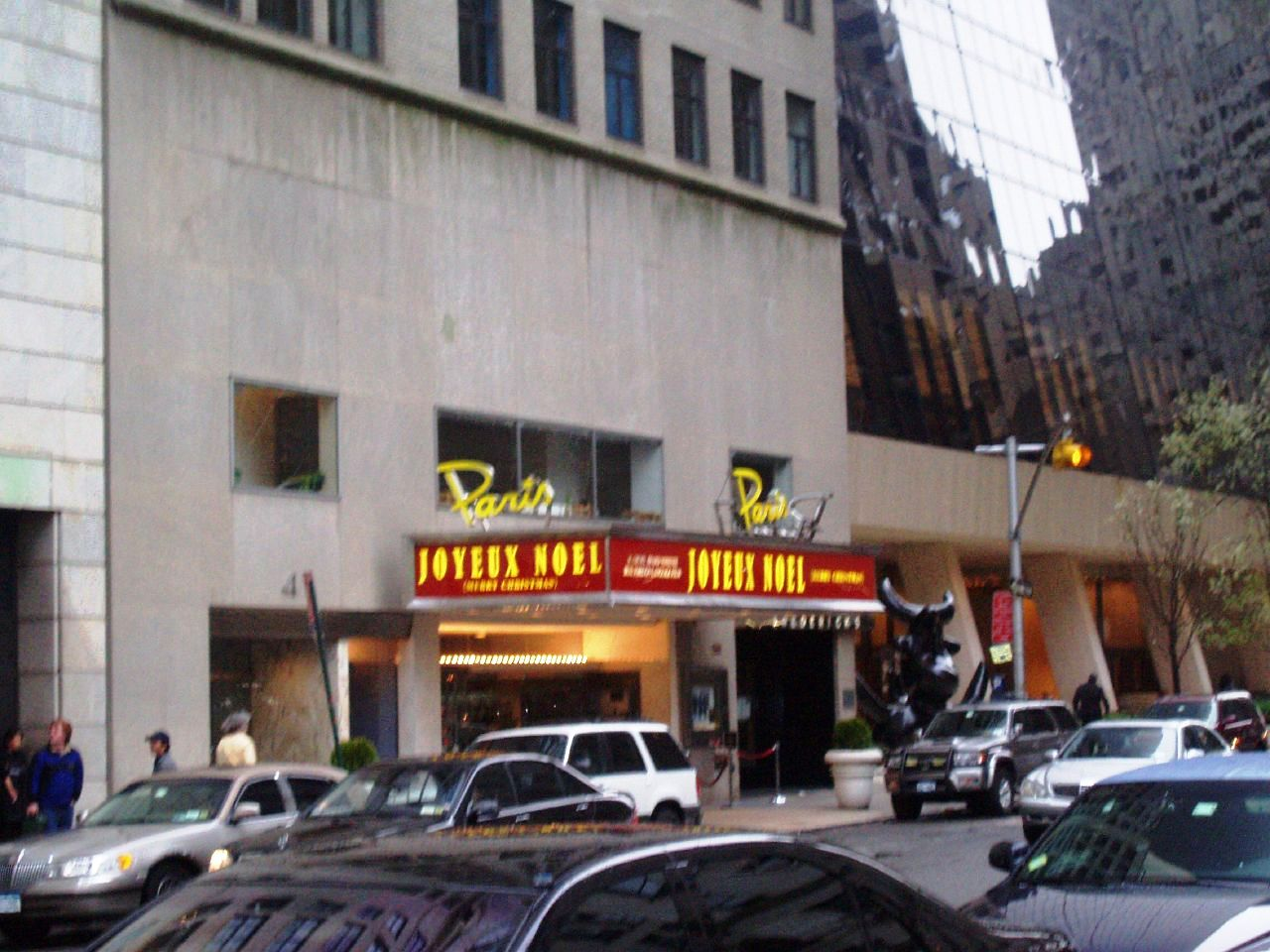 This image represents the Paris Theater in New York City